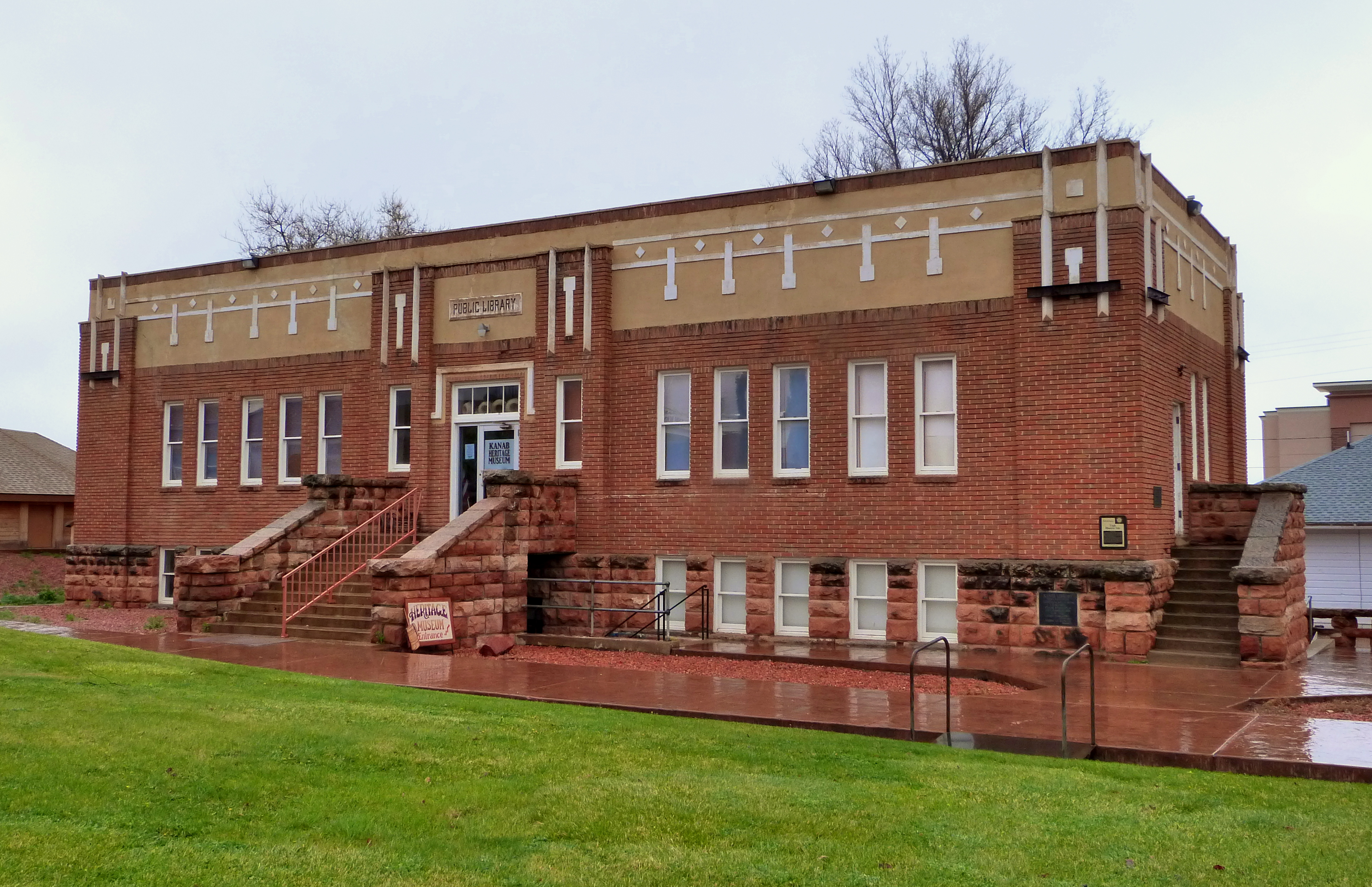 The historic Kanab Library (built 1940), located at 6 South 100 East in Kanab, Utah, United States, is listed on the U.S. National Register of Historic Places. As of the photo date, the building is in use as the Kanab Heritage Museum.